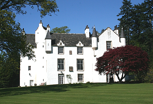 Kininvie House The south side of this fine example of traditional Scottish architecture.